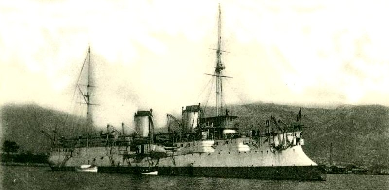 French cruiser Pascal (1895)